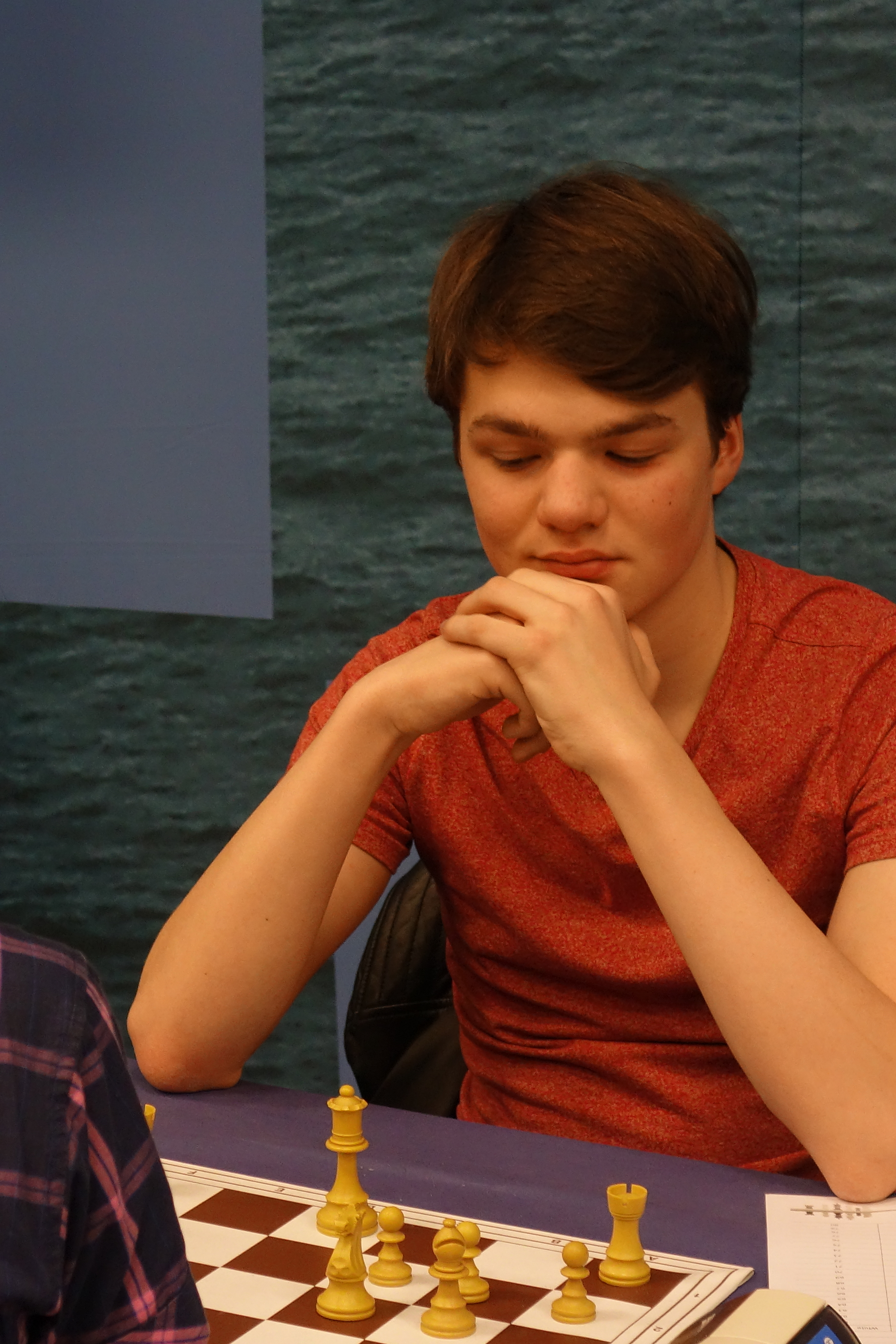 Lucas van Foreest at Tata Steel Chess Tournament 2017, Wijk aan Zee (the Netherlands), 28 January 2017